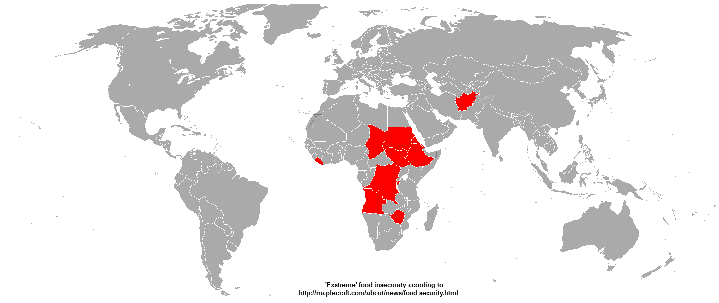 'Extreme' food insecurity map 2010 as according to The information was copied on to a Wikipedia blank map.